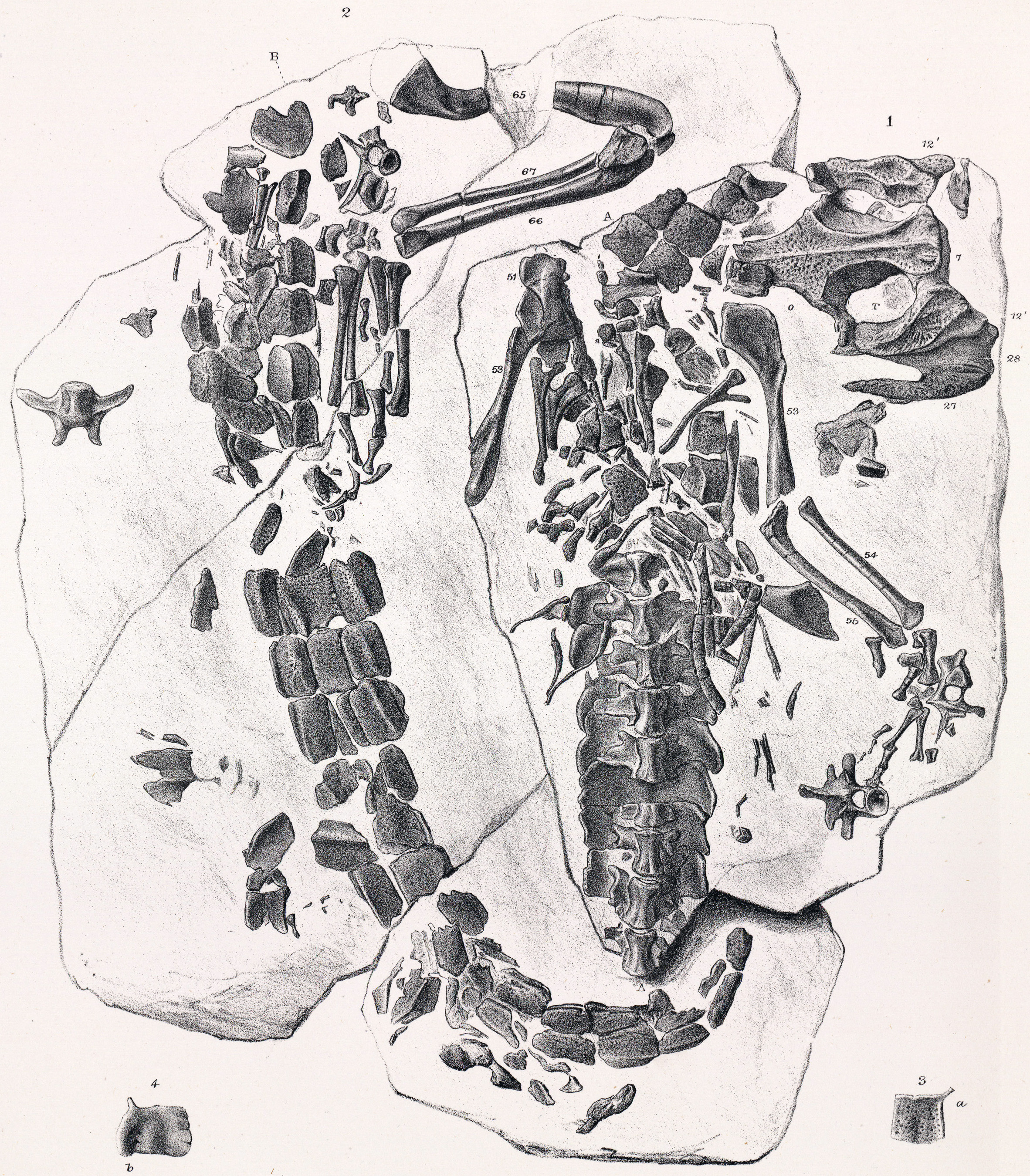 Theriosuchus pusillus. Fig. 1. Portion of skull, trunk-vertebræ, and bones of fore limbs. Fig. 2. Bones of right hind limb and ridged caudal scutes of the same skeleton. Fig. 3. An unridged scute with peg, a. Fig. 4. Under surface of a scute, showing peg and groove, b. All the figures are of the natural size. From the Middle Purbeck; in the British Museum.